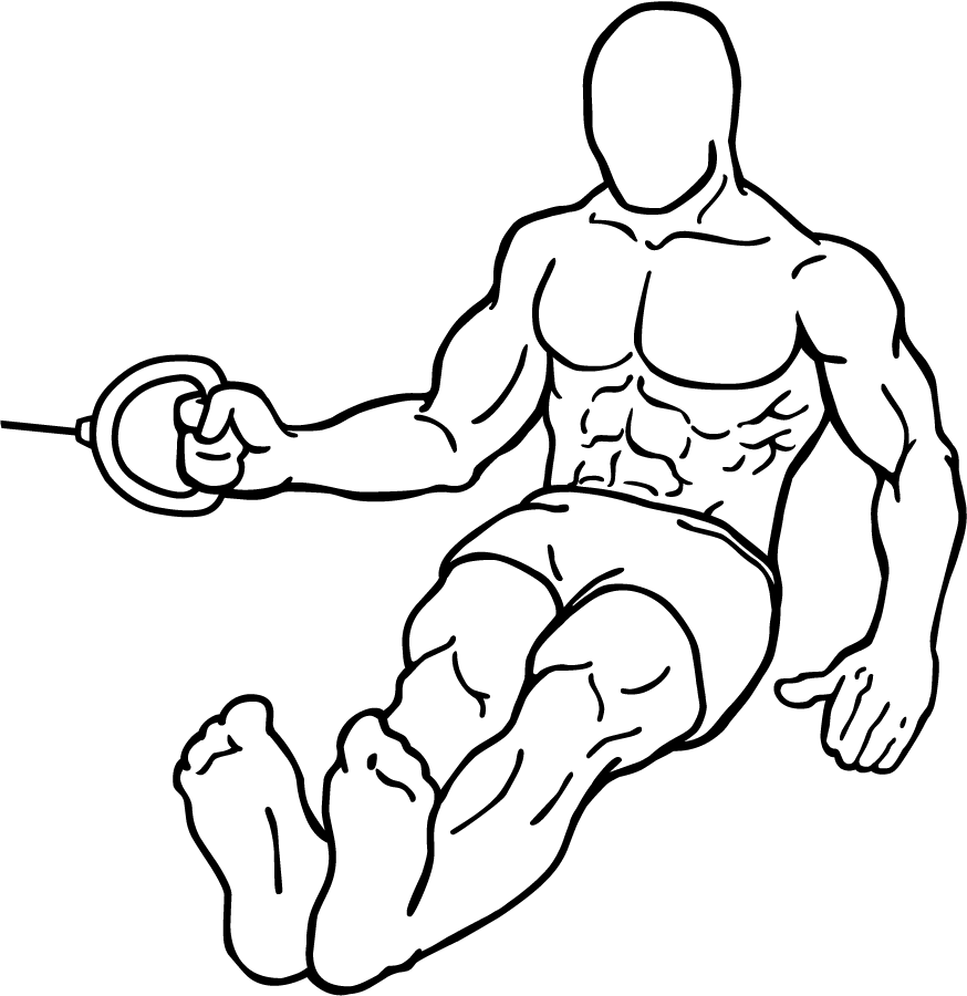 an exercise of rotator cuff